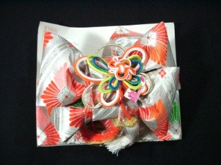 This is a girl's pre-tied obi - this type of obi is usually worn at Shichi-go-san - it is a gala day for children of three, five and seven years of age.